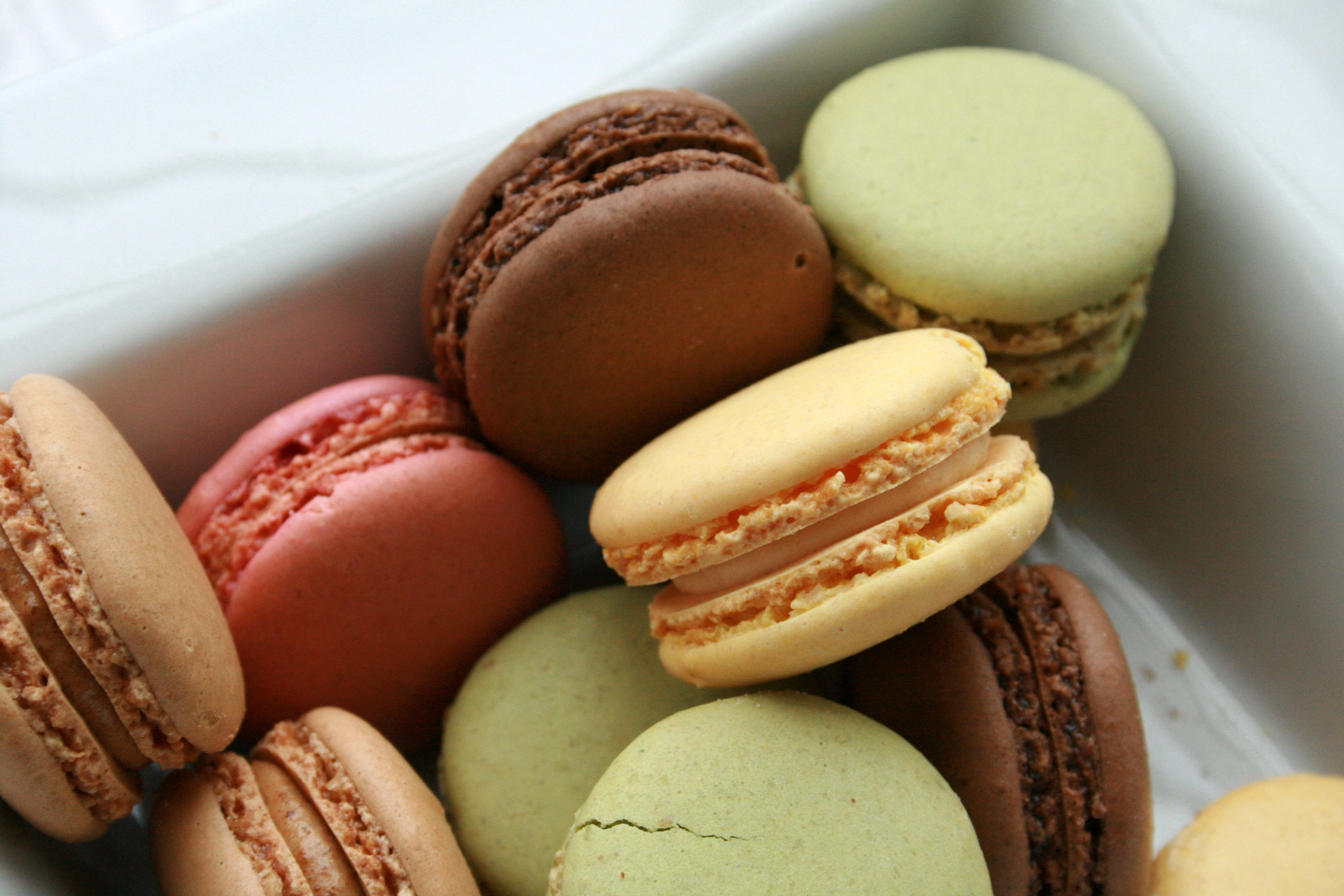 Assorted macarons in a box.